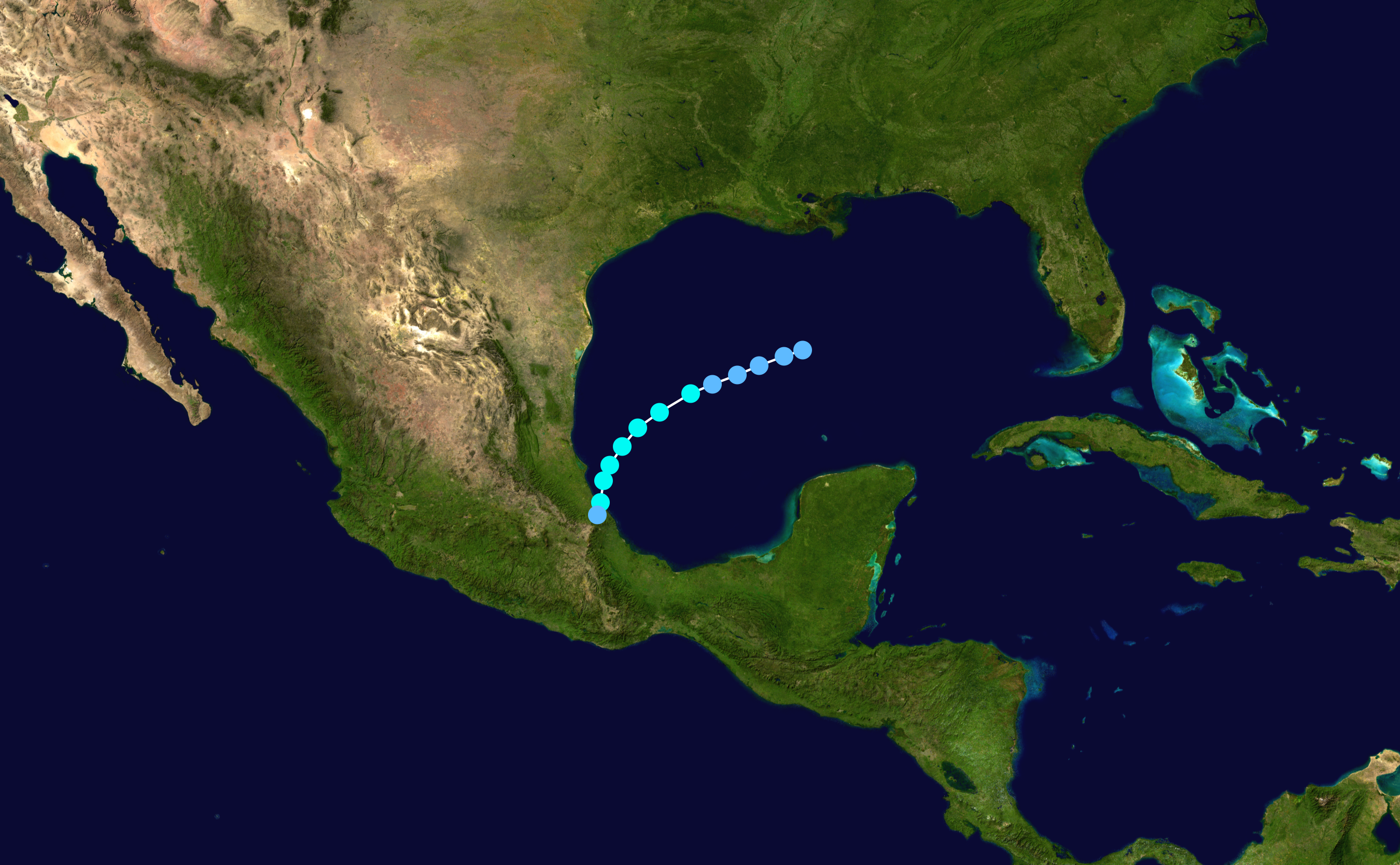 Tropical Storm Bess (1978) track. Uses the color scheme from the Saffir-Simpson Hurricane Scale.